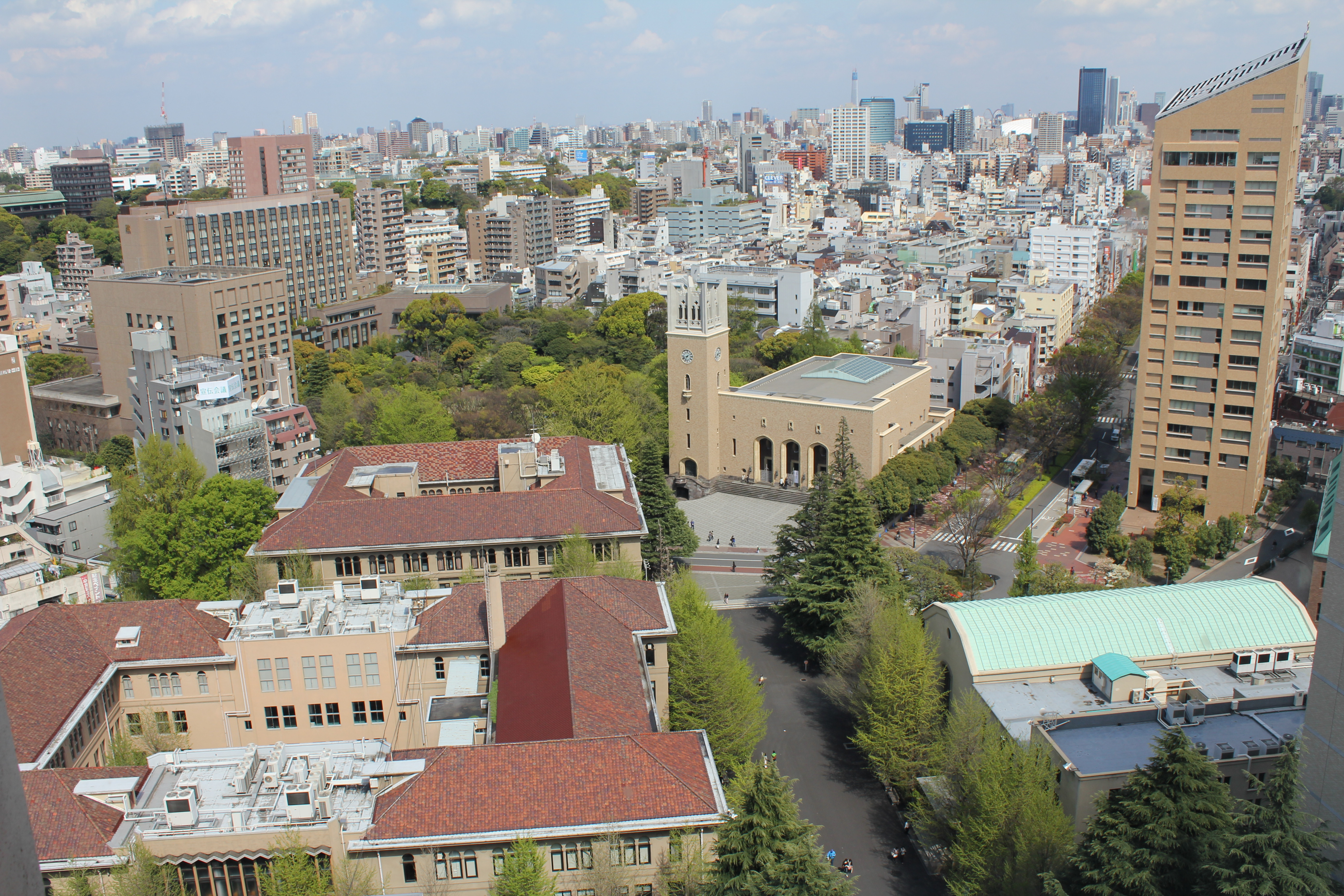 Waseda Campus (1st and 2sd row of buildings) with Tokyo on the background. The Okuma auditorium can be seen in the middle of the image, with the Okuma tower on the right.